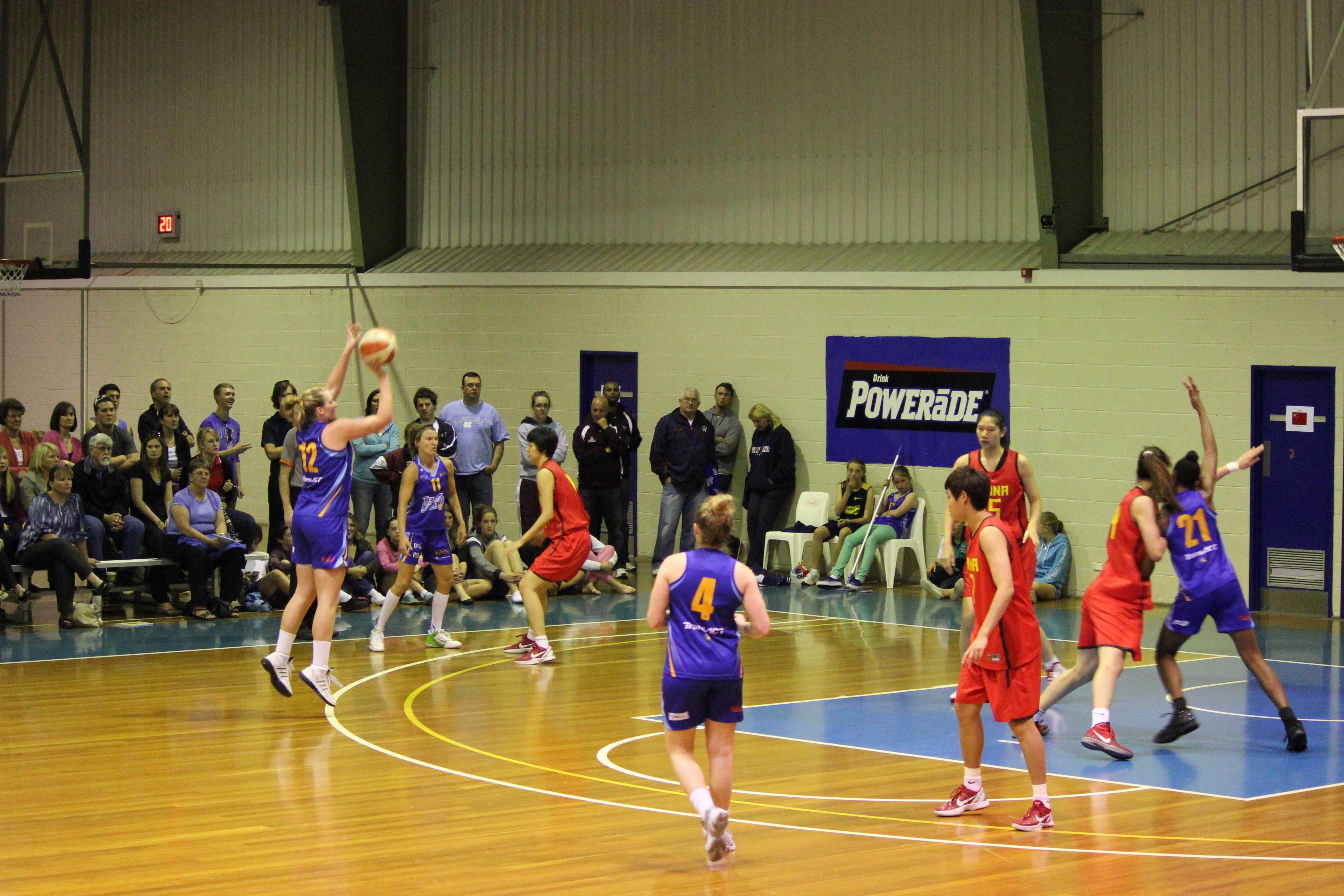 Canberra Capitals played the China women's national basketball B team on 27 September 2012 at the Belconnen Basketball Centre in the WNBL pre-season.